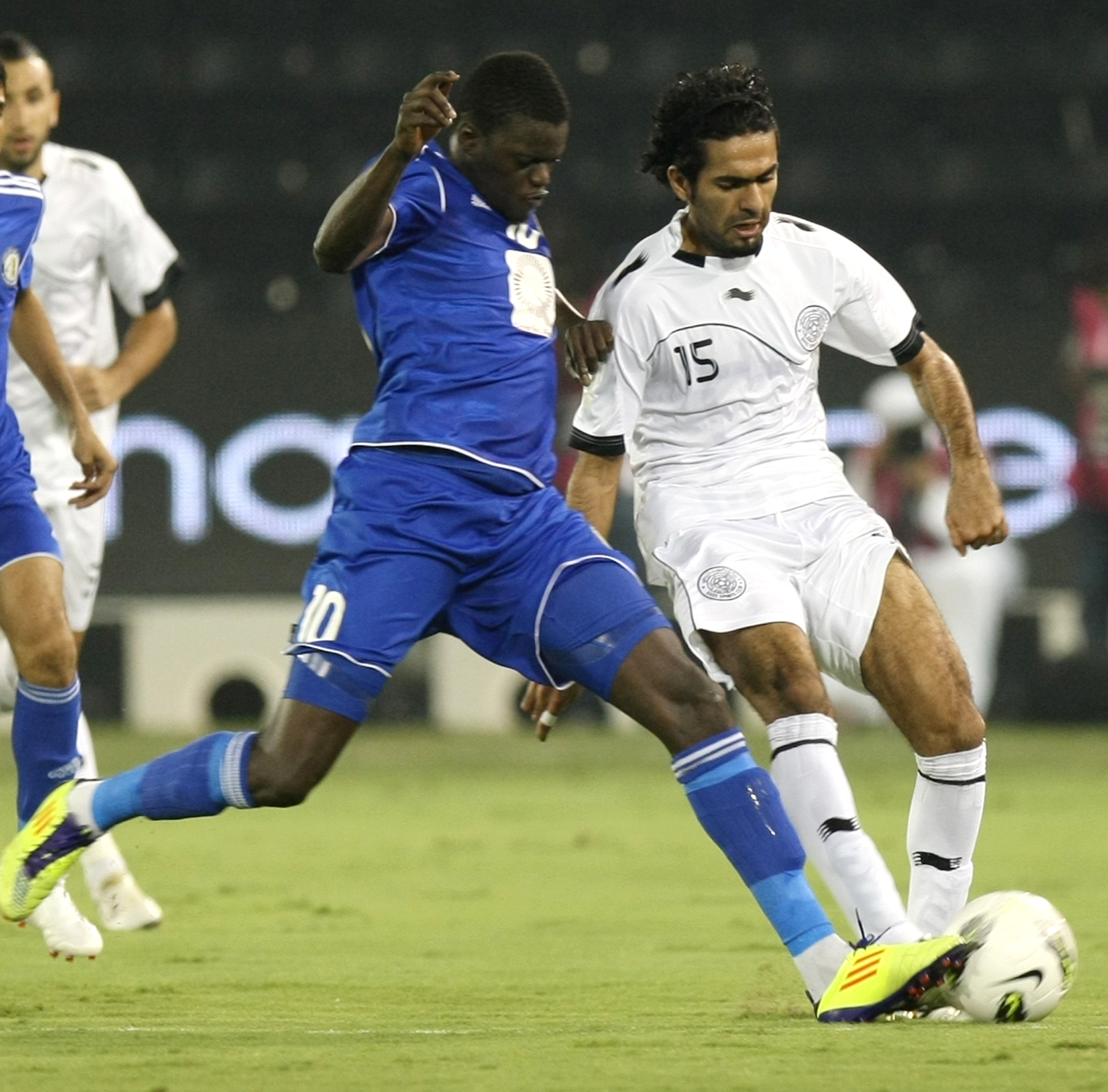 Al Khor's Ibrahima Nadiya fights for the ball with and Al Sadd's Talal Al Balooshi. Pic by Mohan